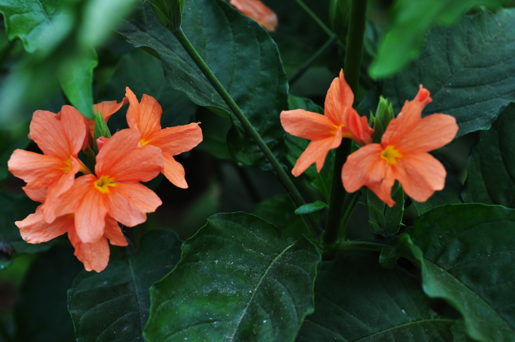 Fire Cracker Flowers